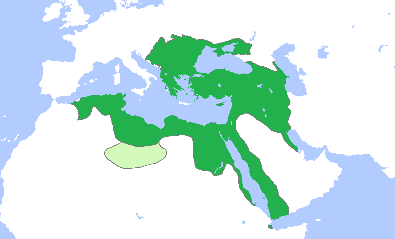 Locator map of the Ottoman Empire, c. 1600 (17th century). (Partially based on Atlas of World History (2007) - The World 1500-1600, map)Green: Ottoman Empire. Light Green: Ottoman vassal, Fezzan.